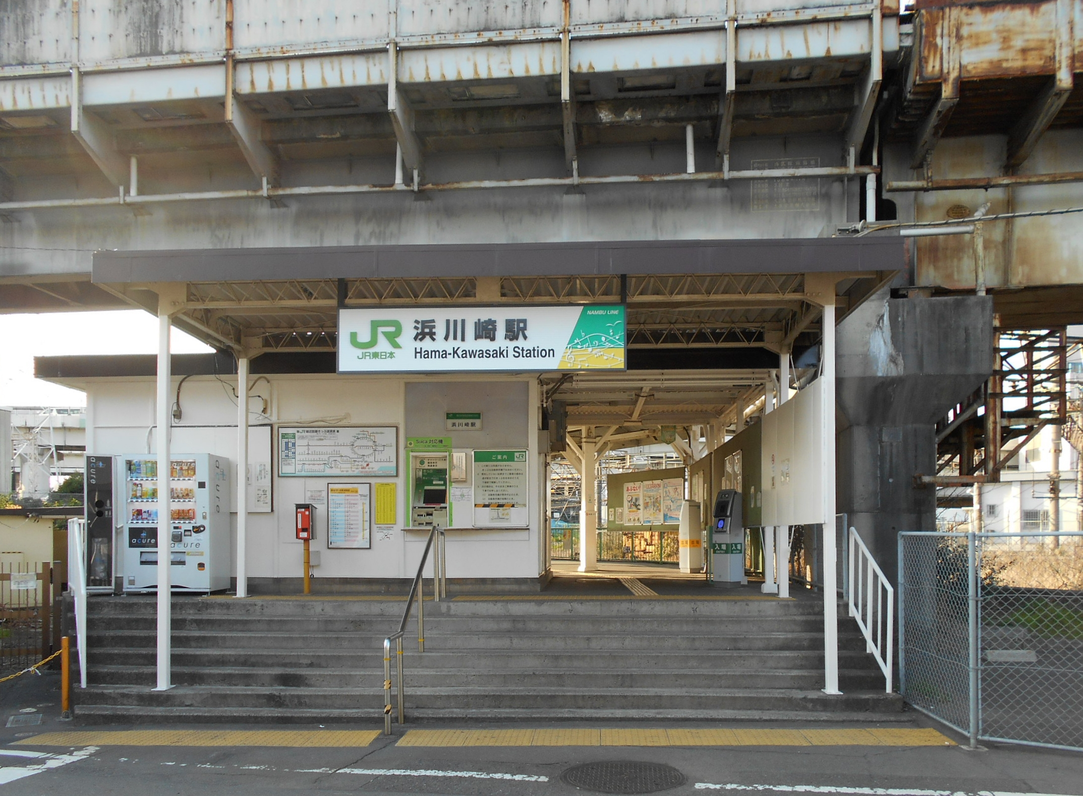 The Nambu Branch Line entrance at Hama-Kawasaki Station in Kanagawa Prefecture, Japan